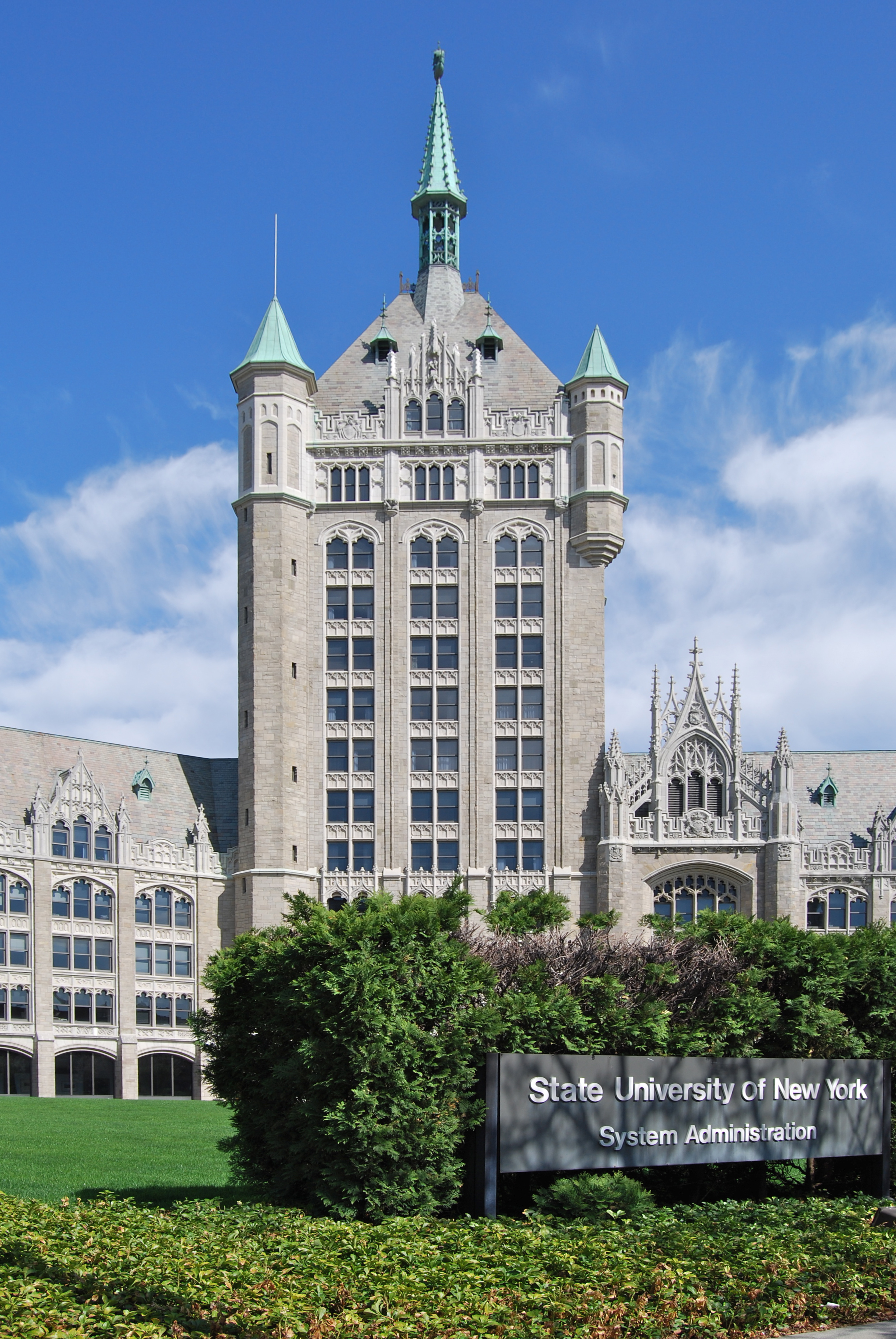 SUNY System Administration Building, the administrative headquarters of the State University of New York, located on Broadway in Albany, New York, United States. For much of its history, it was the Albany headquarters of the Delaware and Hudson Railway. In the 1970s, the SUNY administrative offices moved in after the building had stood vacant for a few years. It was added to the National Register of Historic Places in 1972.